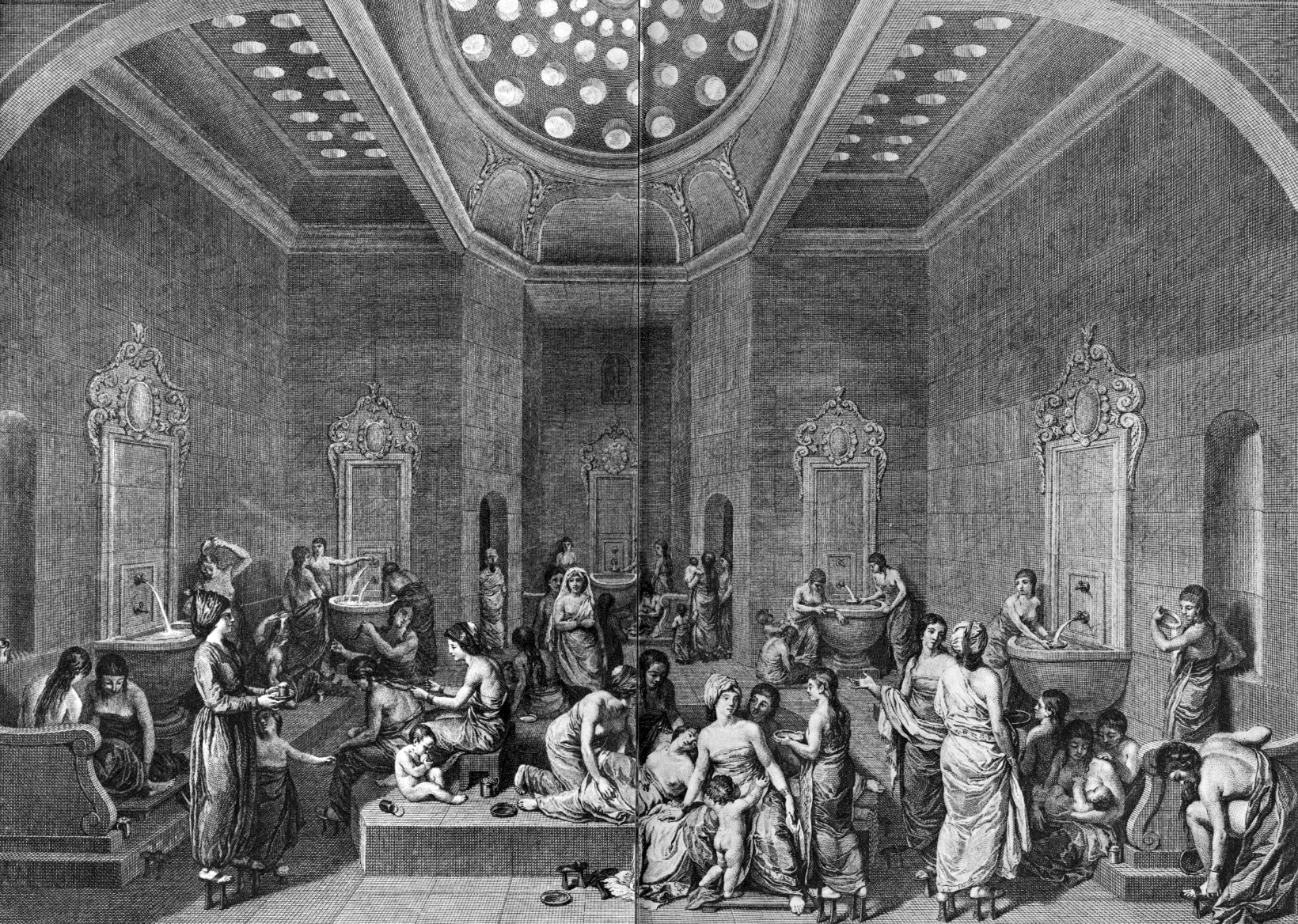 A Turkish bath provided for a harem.